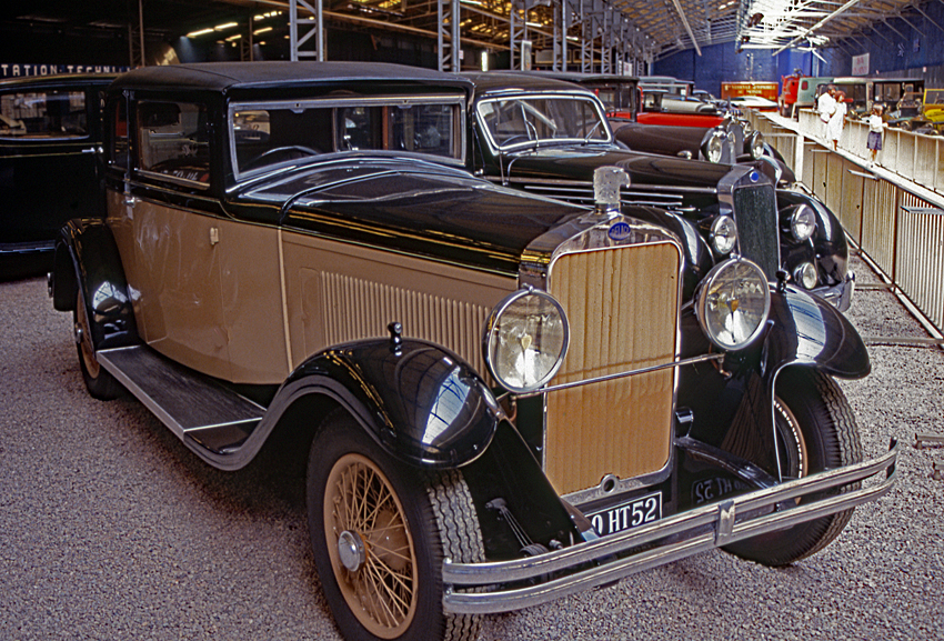 1930 Delage D8c with Lalique eagle head mascot in the Musée Automobile Reims Champagne. Scanned from a Fujichrome 35mm slide.